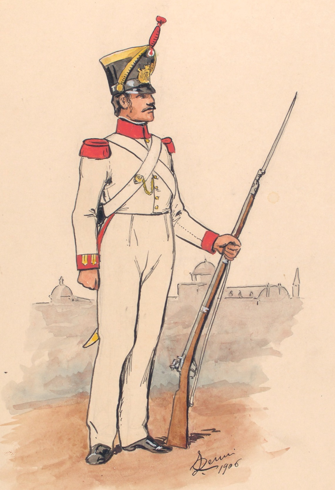 Mexican infantryman, from the Vinkhuijzen Collection in NYPL